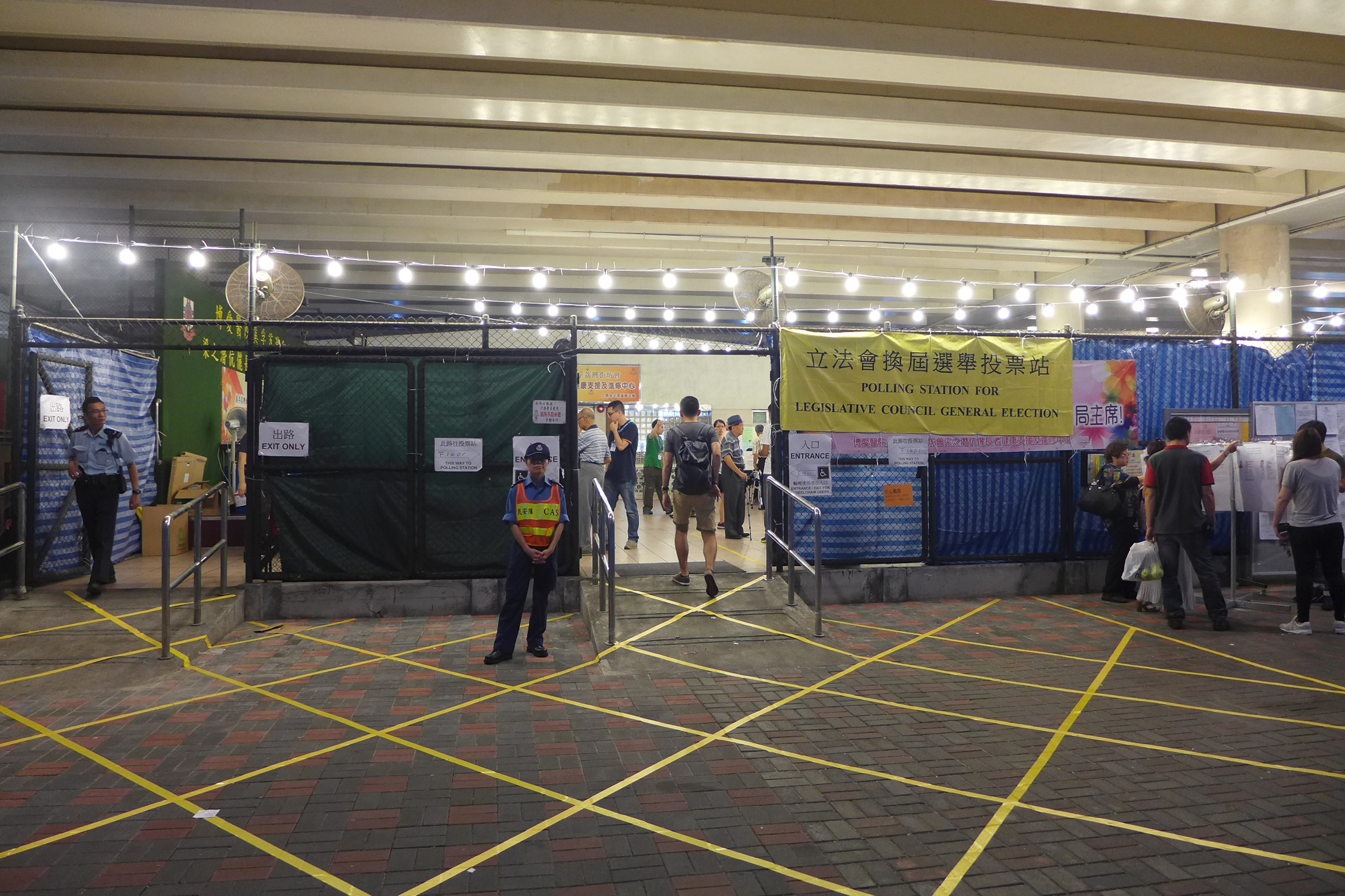 2016 Hong Kong legislative election KL West Mei Foo Polling Station